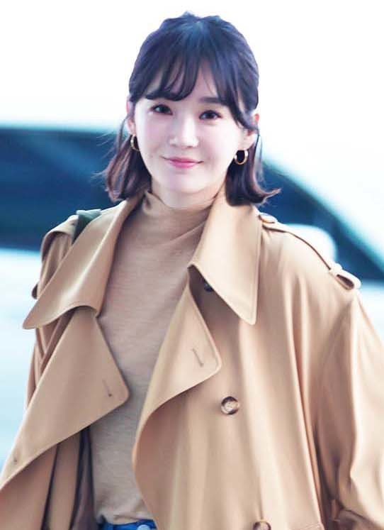 Kang Min-kyung at Incheon International Airport on March 31, 2018.